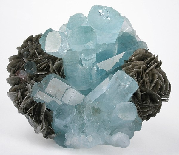 Beryl (Var.: Aquamarine) Locality: Nagar (Nagir), Hunza Valley, Gilgit District, Northern Areas, Pakistan (Locality at ) Size: 12.7 x 11.6 x 8.1 cm. This piece has a vibrant, beautiful "aqua blue" color to it that is at the top of the spectrum for an aquamarine from this particular locality. The largest crystal is 6 cm, flat-laying. More interesting are the broad, gemmy, terminations which are 2-3 cm across, and where you can look down into the crystal core. The lustre is glassy and bright. Weighs 1369 grams.